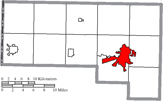 Map of the municipal and township boundaries of Defiance County, Ohio, United States, as of the 2000 census, with the location of the city of Defiance highlighted. Township borders are shown only in unincorporated areas in order to differentiate incorporated and unincorporated areas more clearly.